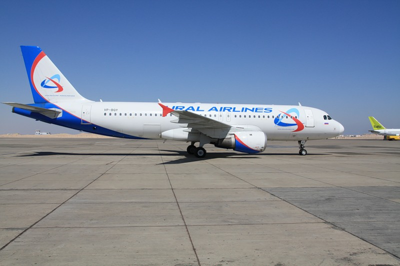 Airbus A320 VP-BQY Ural Airlines. Hurgada airport